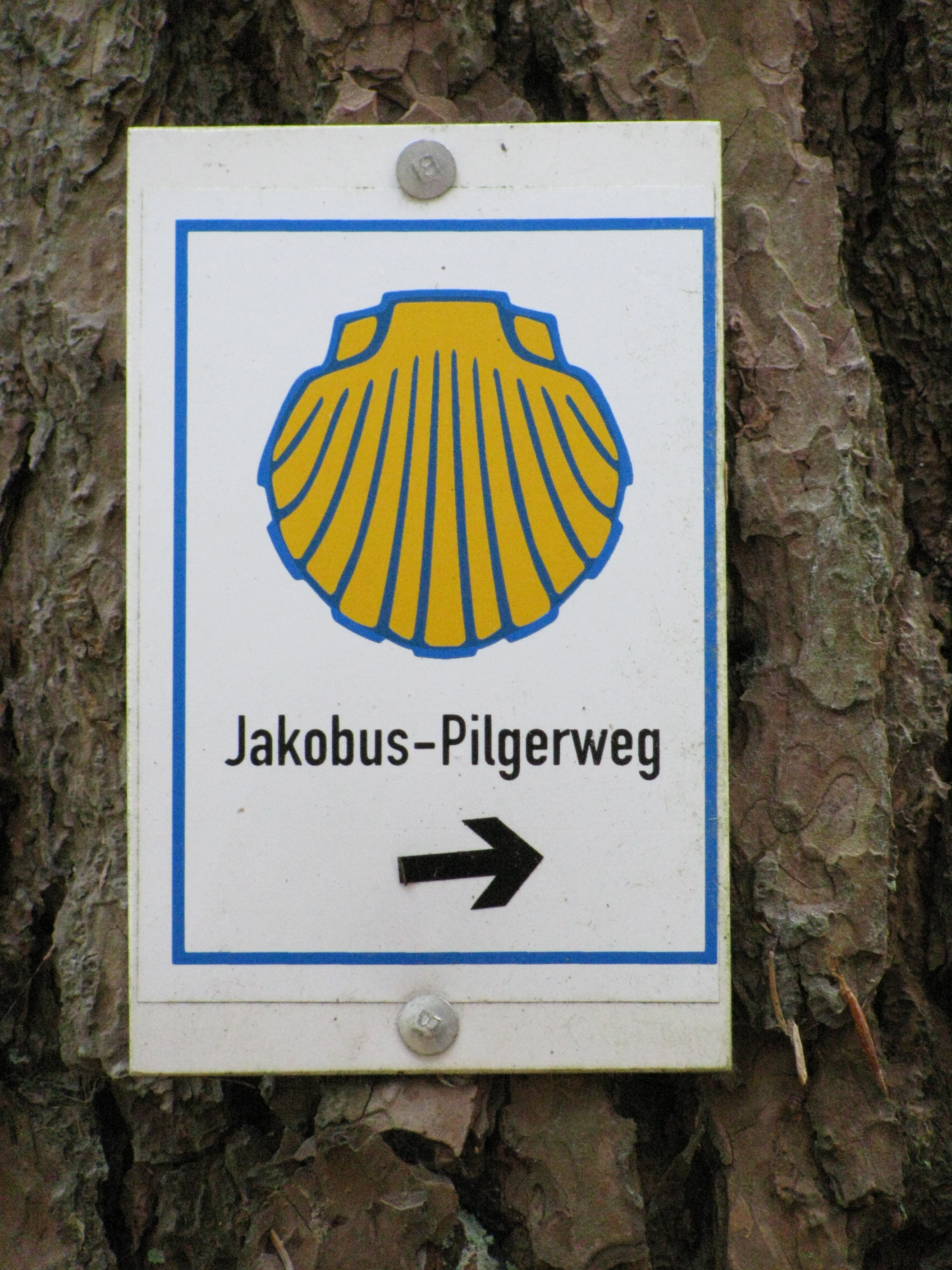 Germany - Baden-Württemberg - Bodenseekreis - Kressbronn am Bodensee: 'Oberschwäbischer Jakobsweg' (Way of Saint James), trail blazing